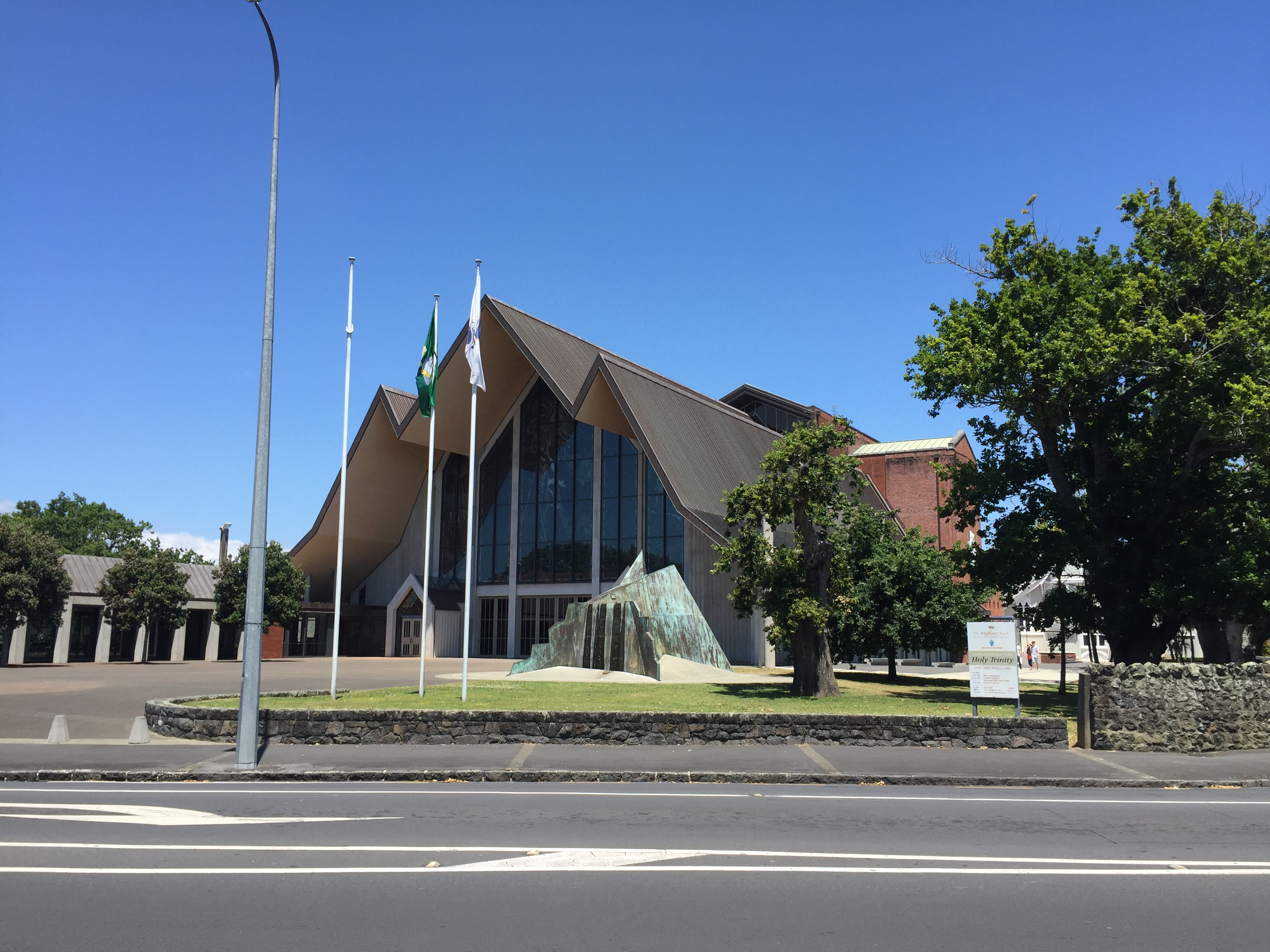 West front of Holy Trinity Cathedral